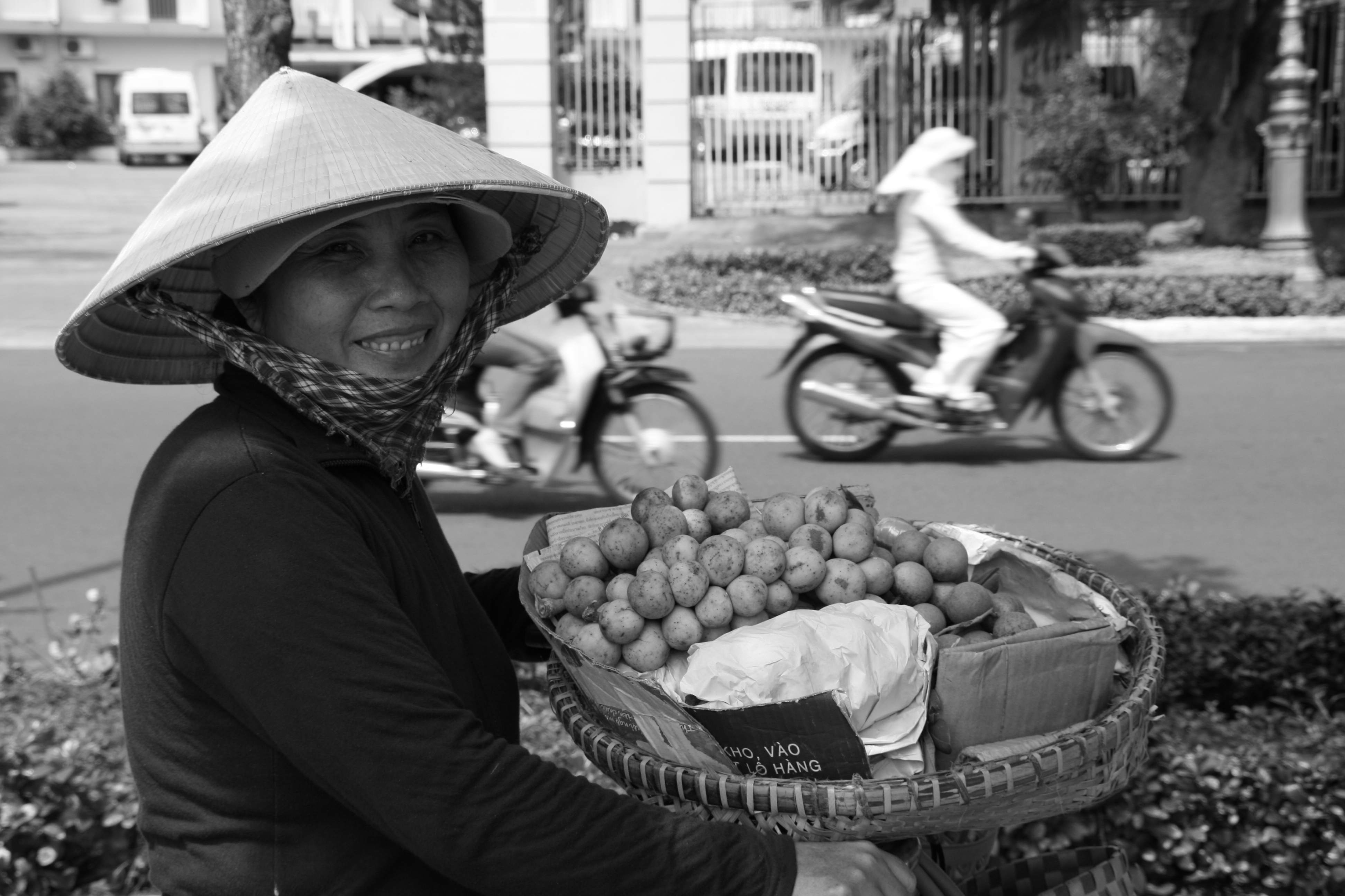 A Vietnamese woman with groceries in a basket